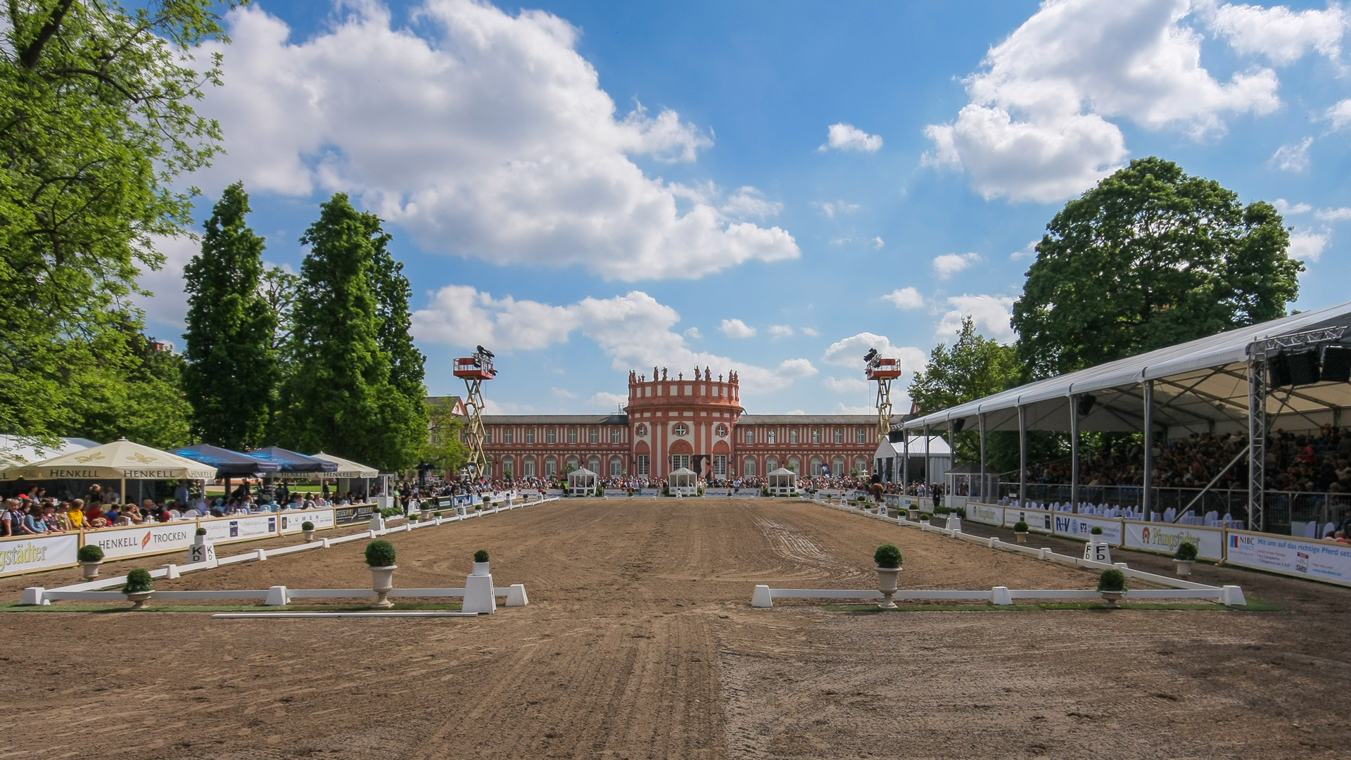 Dressage arena in front of the Schloss Biebrich, Pfingstturnier Wiesbaden 2013